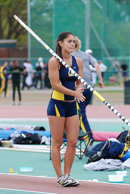 Allison Stokke is readying for a pole vaulting session at a track and field competition (2008).